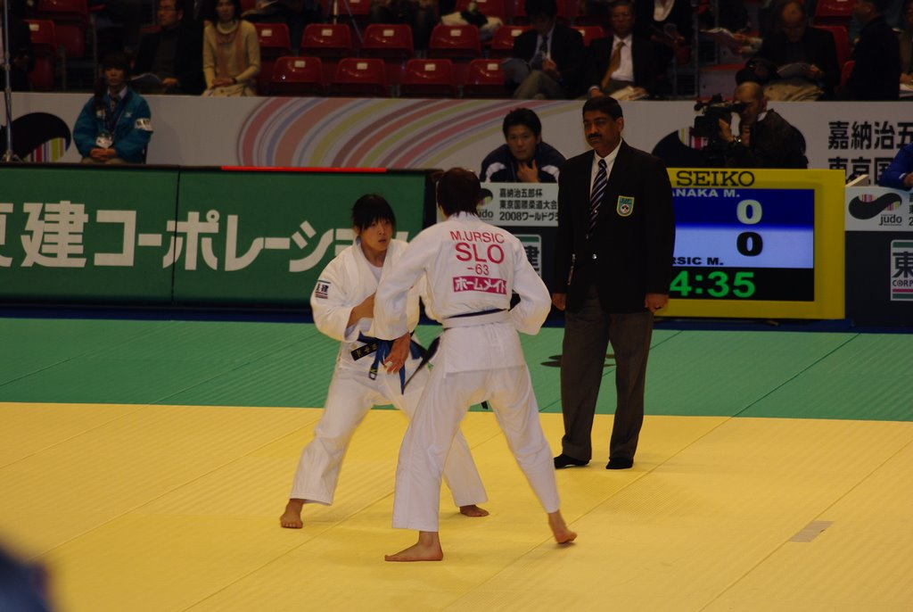 Tanaka (JPN) vs Uršič (SLO), 2008 Kano Cup Day 2